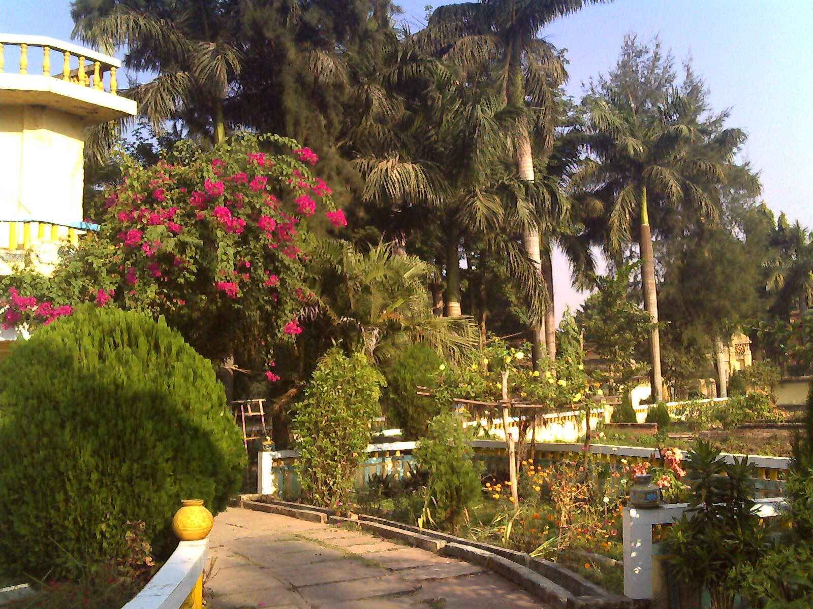 Maa Mandir Garden